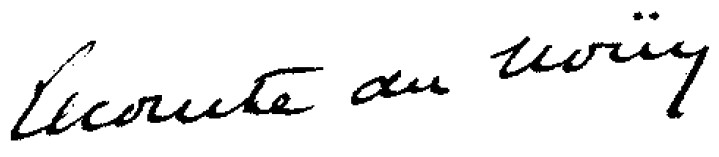 Signature of Pierre Lecomte du Noüy, the biophysicist